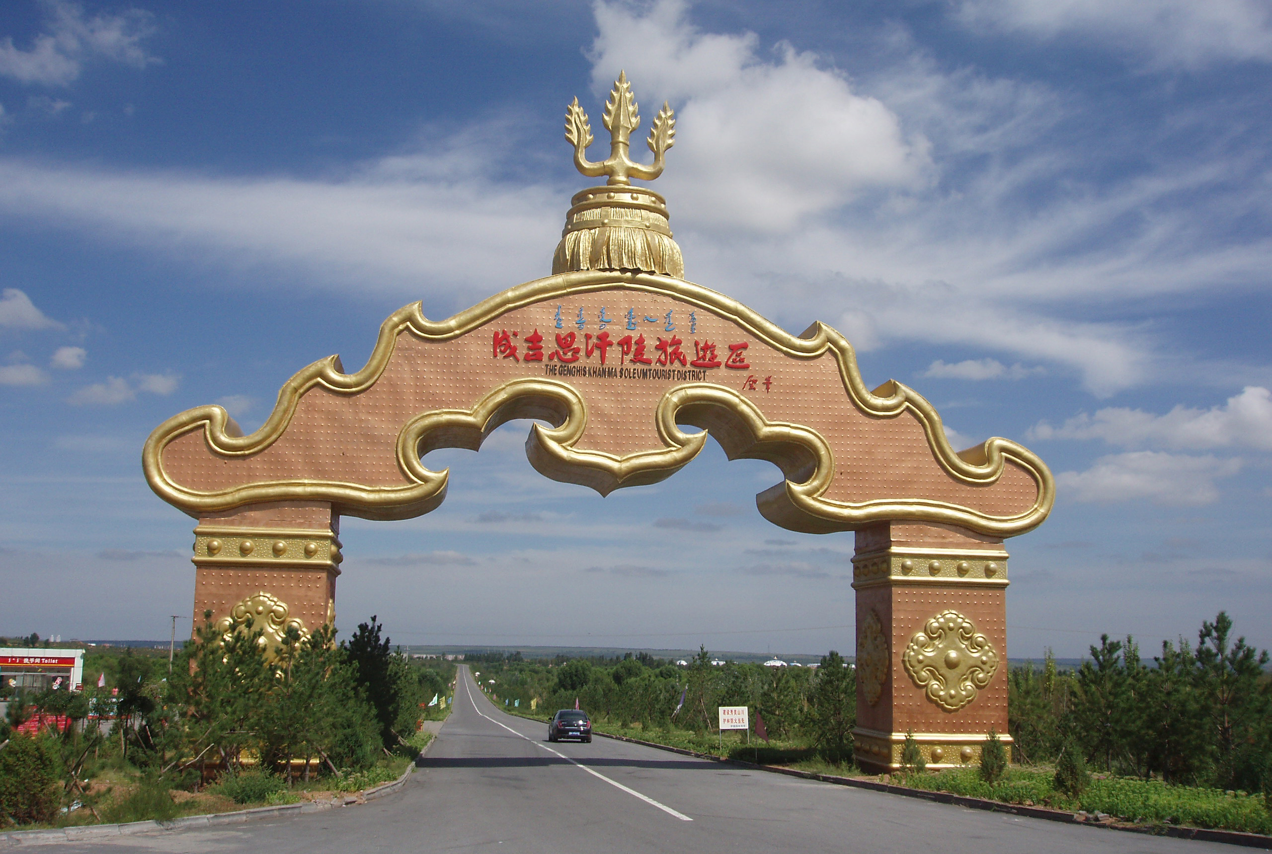 The outer gate of Mausoleum of Genghis Khan in Ordos, Inner Mongolia, China.